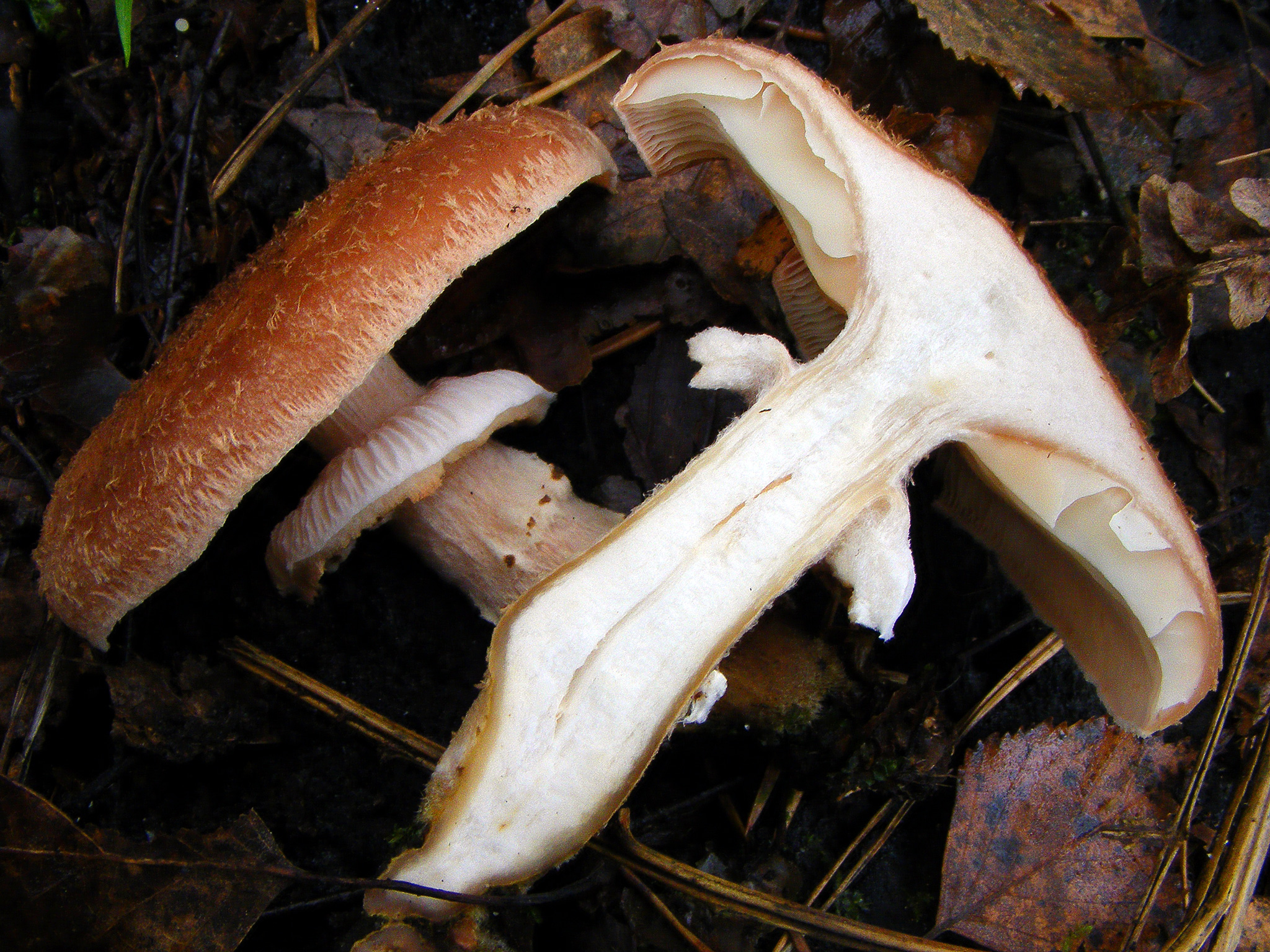 Armillaria ostoyae - cutout.